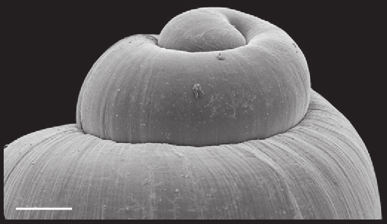 Photo of the lateral view of the shell apex of Marstonia comalensis USNM 874932. Scale bar is 100 μm.